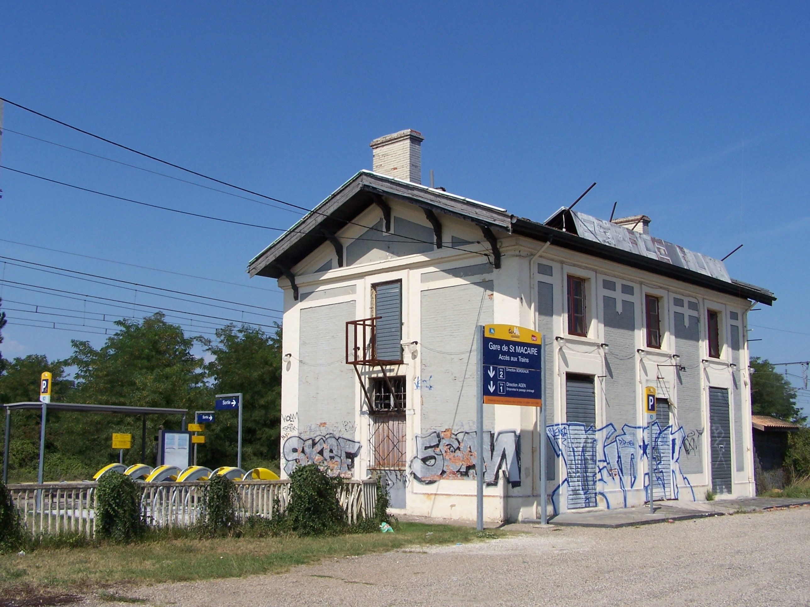 Train station of Saint-Macaire (Gironde, France)